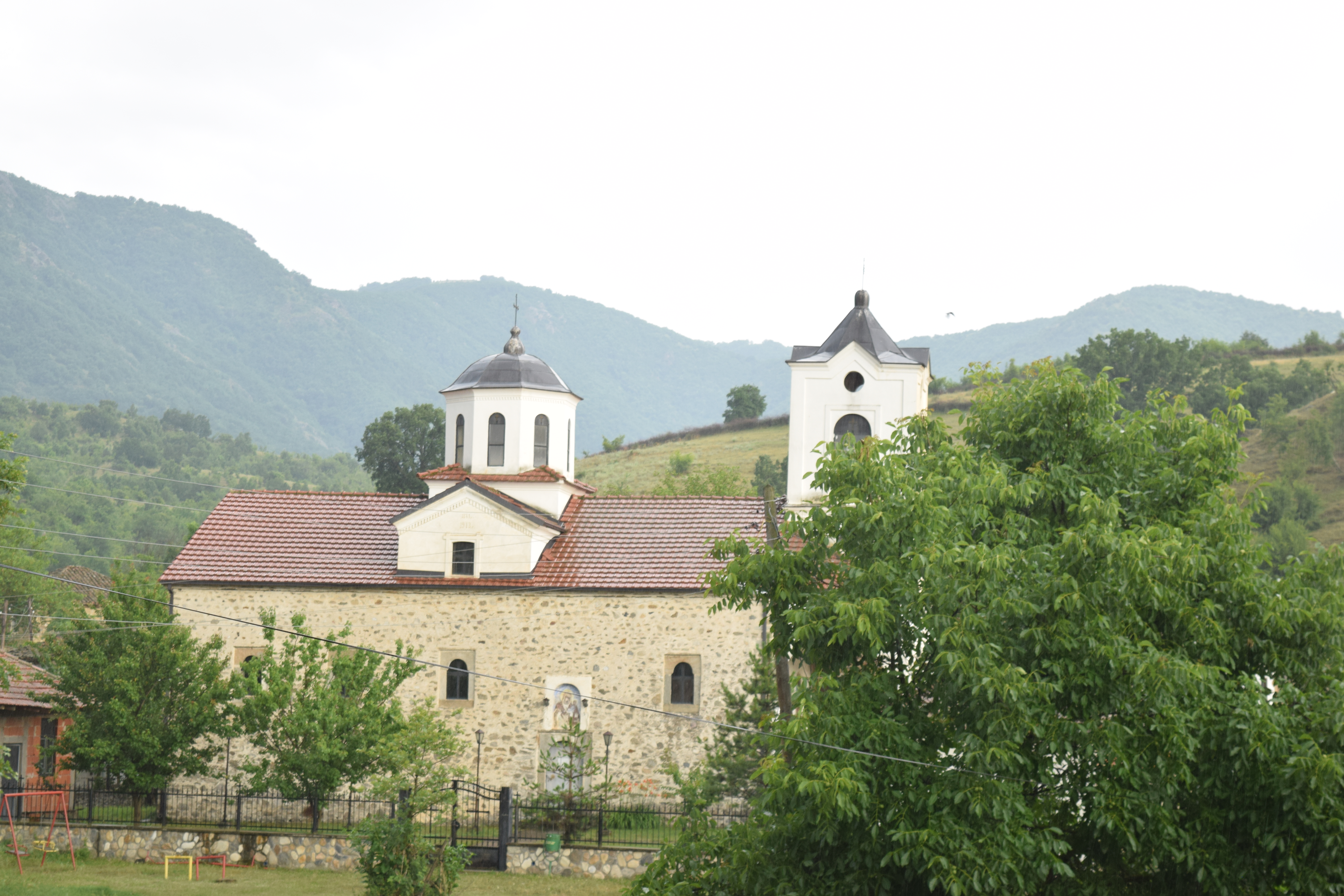 View of the Sts. Constantine and Helena Church in the village Omorani